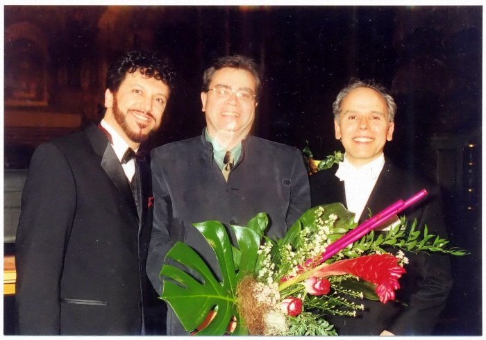 Renato Mismetti, Almeida Prado und Maximiliano de Brito - im Markgräflichen Opernhaus - Bayreuth